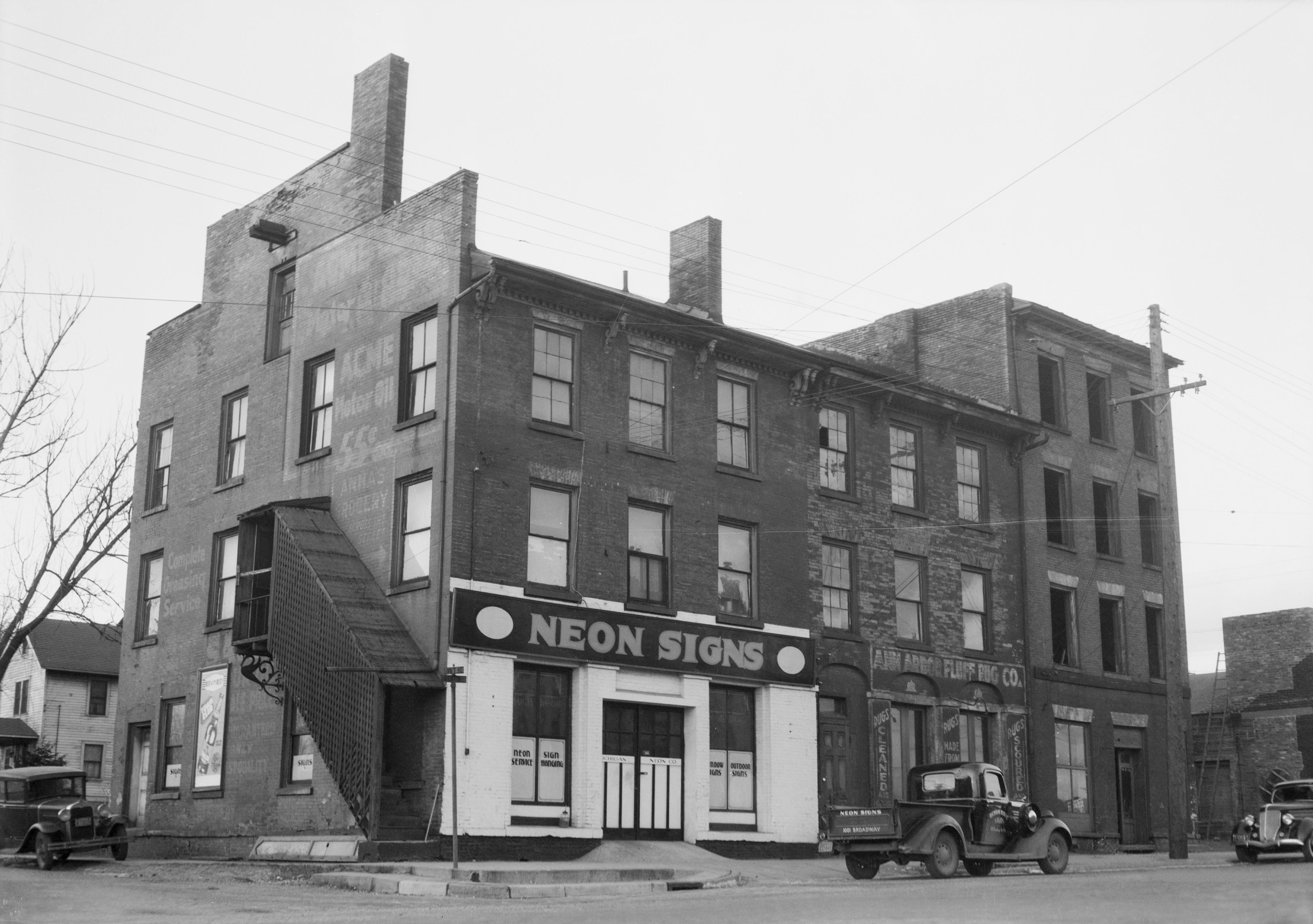 The Anson Brown Building — Ann Arbor Michigan. Historic American Buildings Survey—HABS image (1930s).